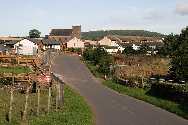 Approaching Brydekirk from the southeast Some new house building has taken place along this road.